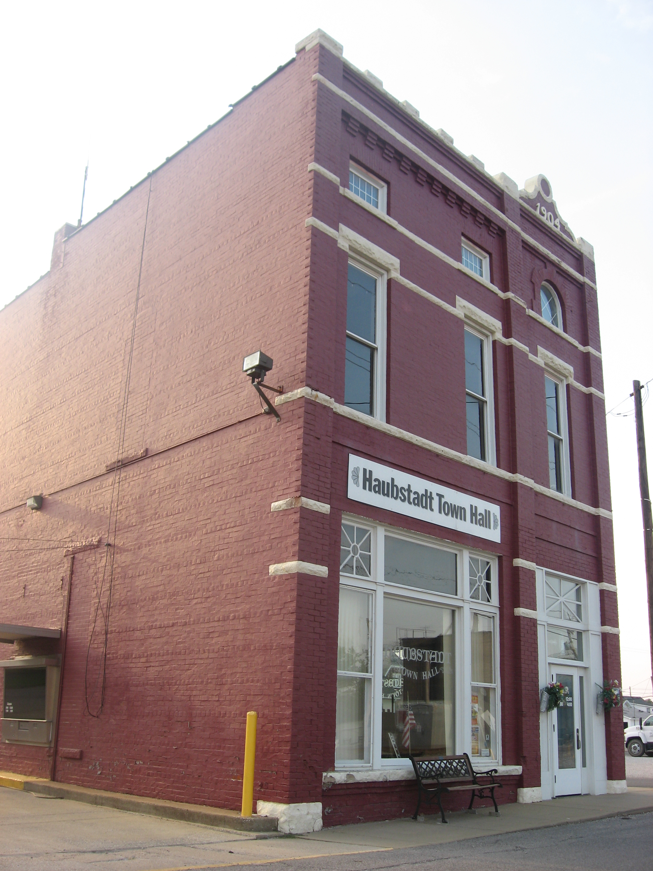 Front and southern side of the Haubstadt State Bank, located at 101 S. Main Street in Haubstadt, Indiana, United States. Built in 1904 and since converted into the town hall, it is listed on the National Register of Historic Places.